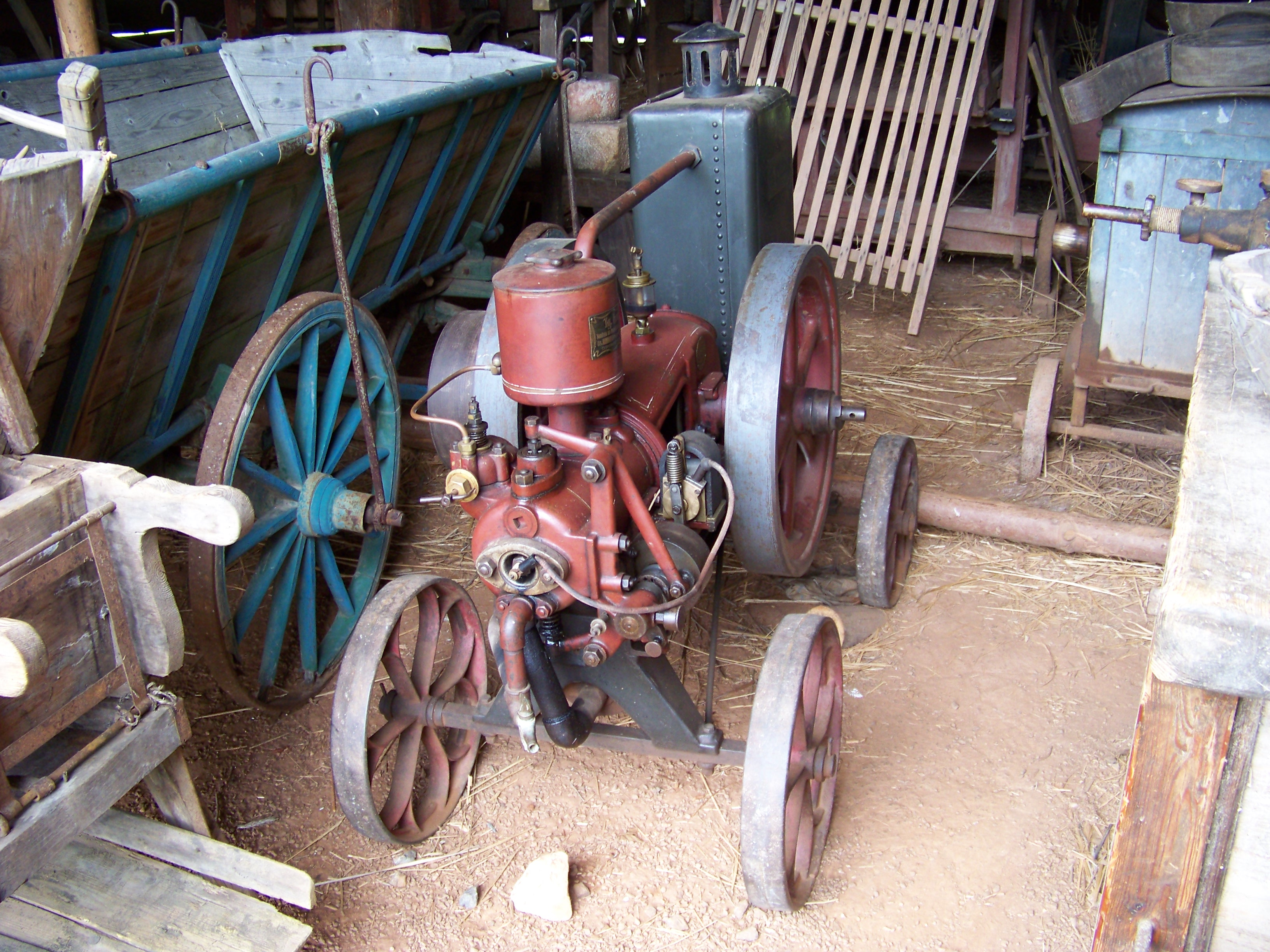 Kouřim, Kolín District, Central Bohemian Region, the Czech Republic. Open air museum. - Google Maps - Google Earth